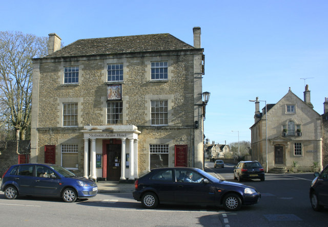 Methuen Arms Hotel, Corsham On the B3353 which serves as Corsham's main street, the Methuen Arms or its predecessor has served the traveller for many a long year. "Apart from the Georgian architecture, the ancient stone walls, mullioned windows and oak beams of “The Carving Room” date back to the fourteenth century and this section was originally a nunnery. The other wings and buildings around the courtyard at the rear of the building date back from the 1600’s but parts may be earlier. The nunnery became a public house in 1608 and was known as the Red Lion by 1637." The above was copied from